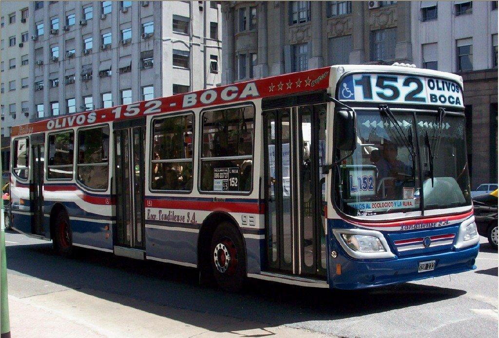 Italbus Tropea bus (reg. GSR 133, #93) with unknown chassis in Buenos Aires, Argentina. Colectivo, line 152, Empresa Tandilense S.A. operator.